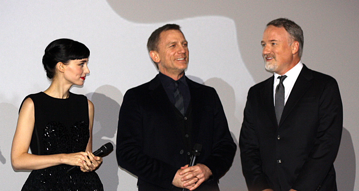 Rooney Mara, Daniel Craig and David Fincher at the Paris premiere of their film The Girl with the Dragon Tattoo